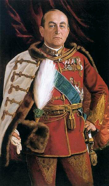 Gyula Gömbös de Jákfa, right radical Hungarian politician, prime minister from 1932 to 1936. Portrait by Tibor Pólya, early 1930s.